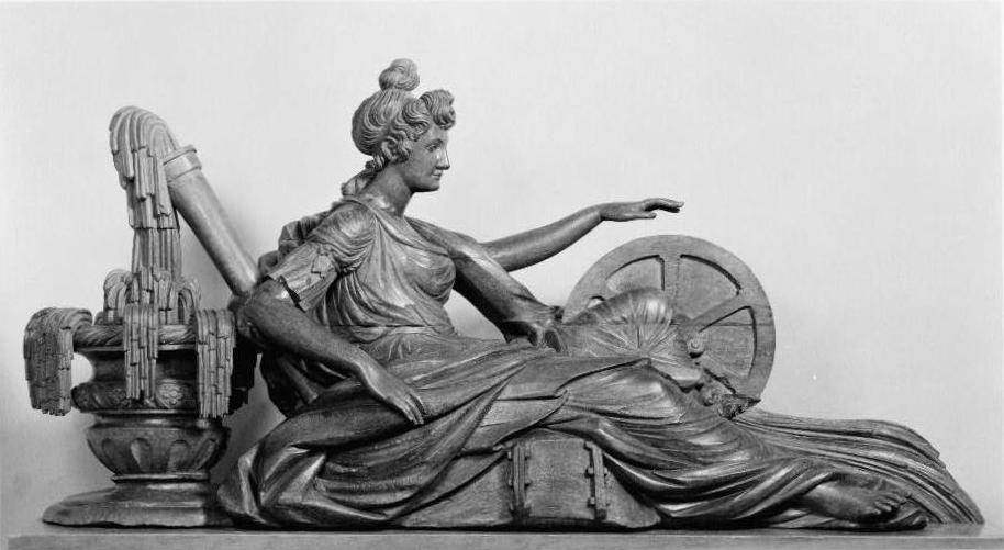 "Allegorical Figure of the Waterworks" by William Rush (circa 1825), wooden statue. Collection: Philadelphia Museum of Art.